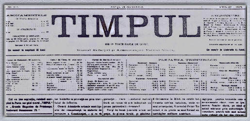 Title page of Timpul newspaper